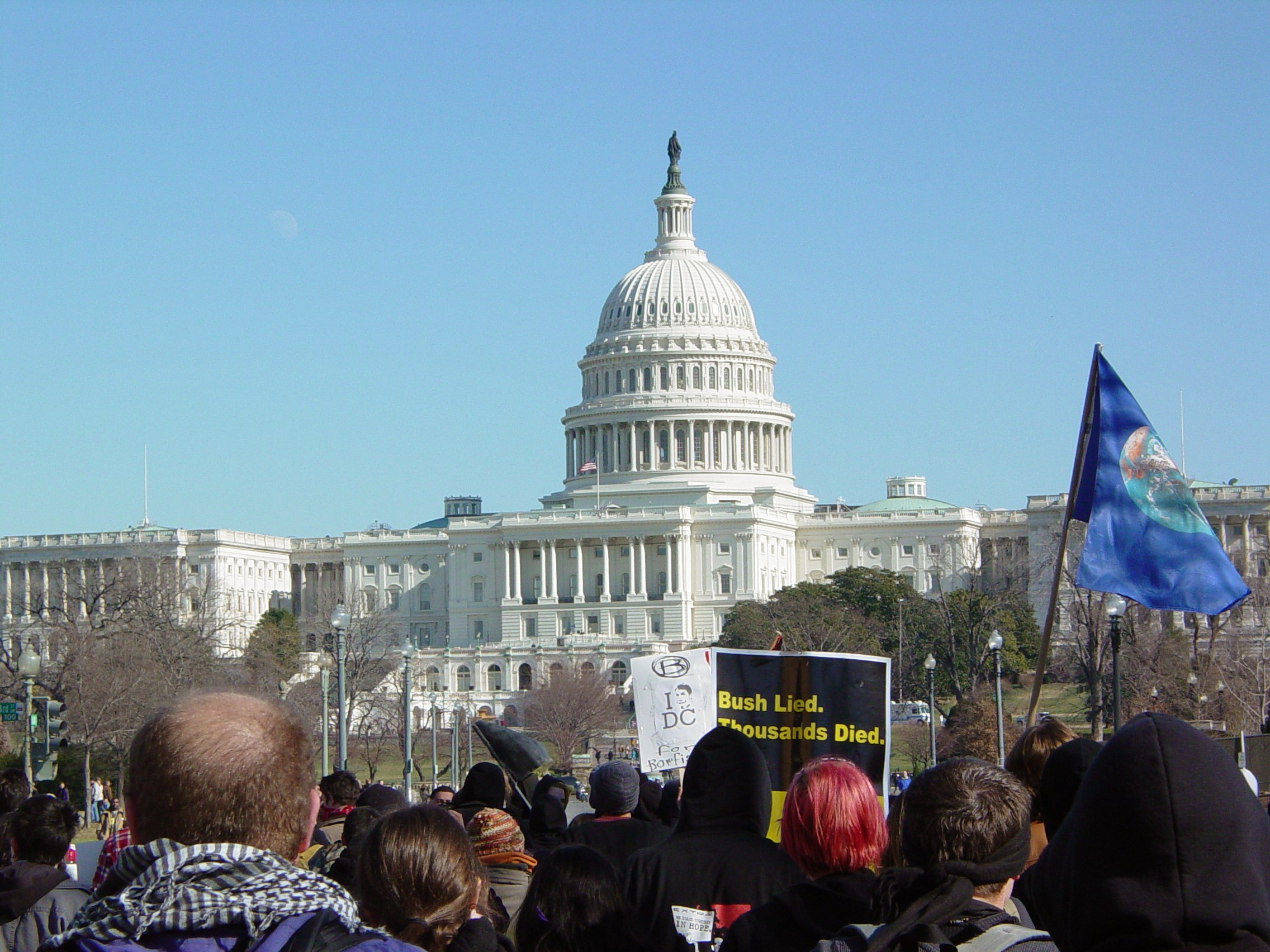 Participants in the January 27, 2007 anti-war protest march towards the US Capitol building. Photo by Ben Schumin.